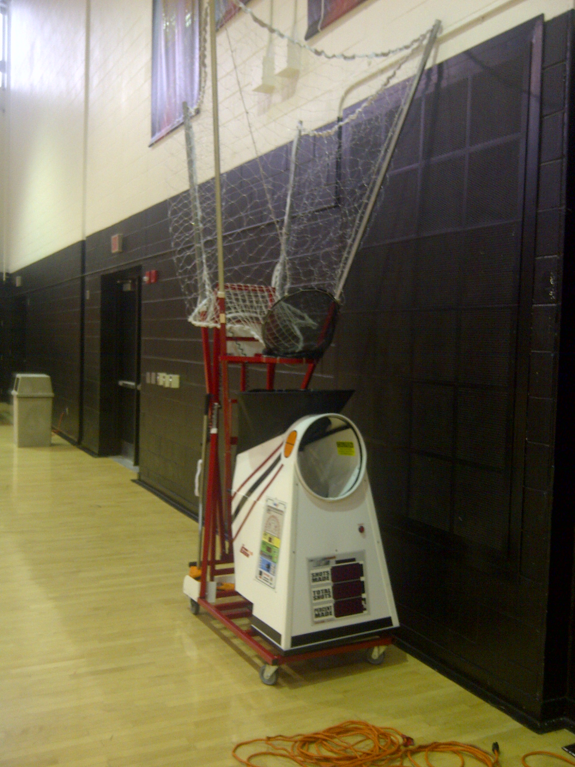 The Basketball Gun was invented by John Joseph in 1998 as a tool for basketball player development.